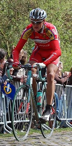 Chris Froome in the 2008 Paris-Roubaix (Trouée d'Arenberg)